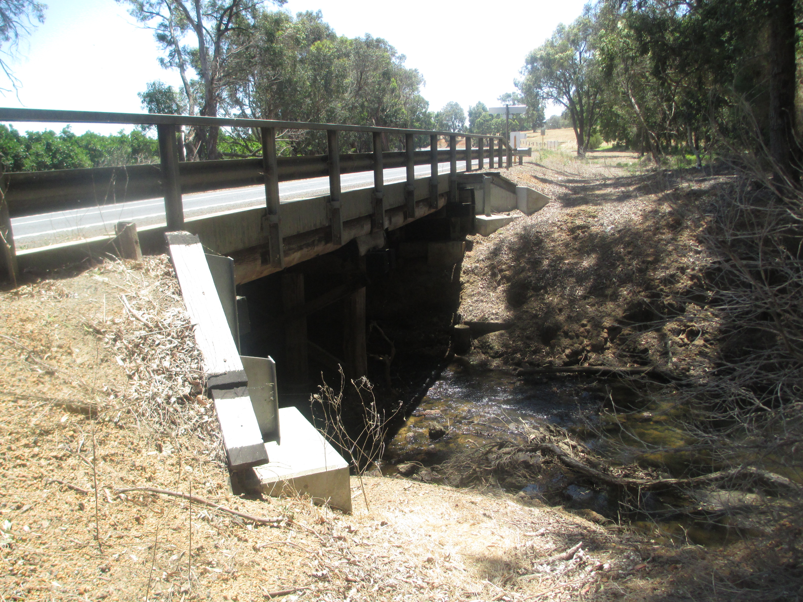 From Wikipedia Takes Waroona Samson Brook